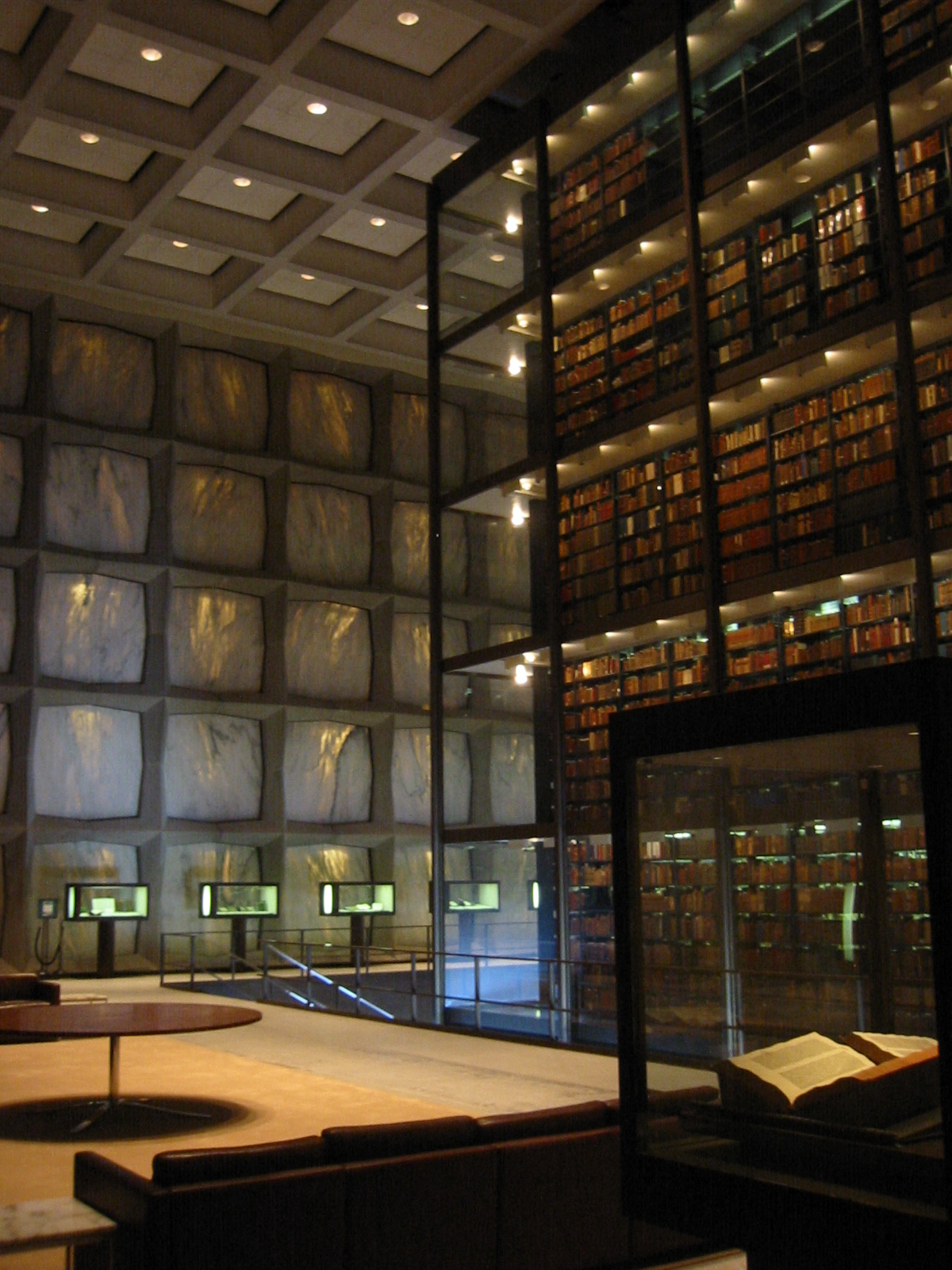 The interior of the "Marble Cube," Yale University's Beinecke Rare Books and Manuscripts Library.